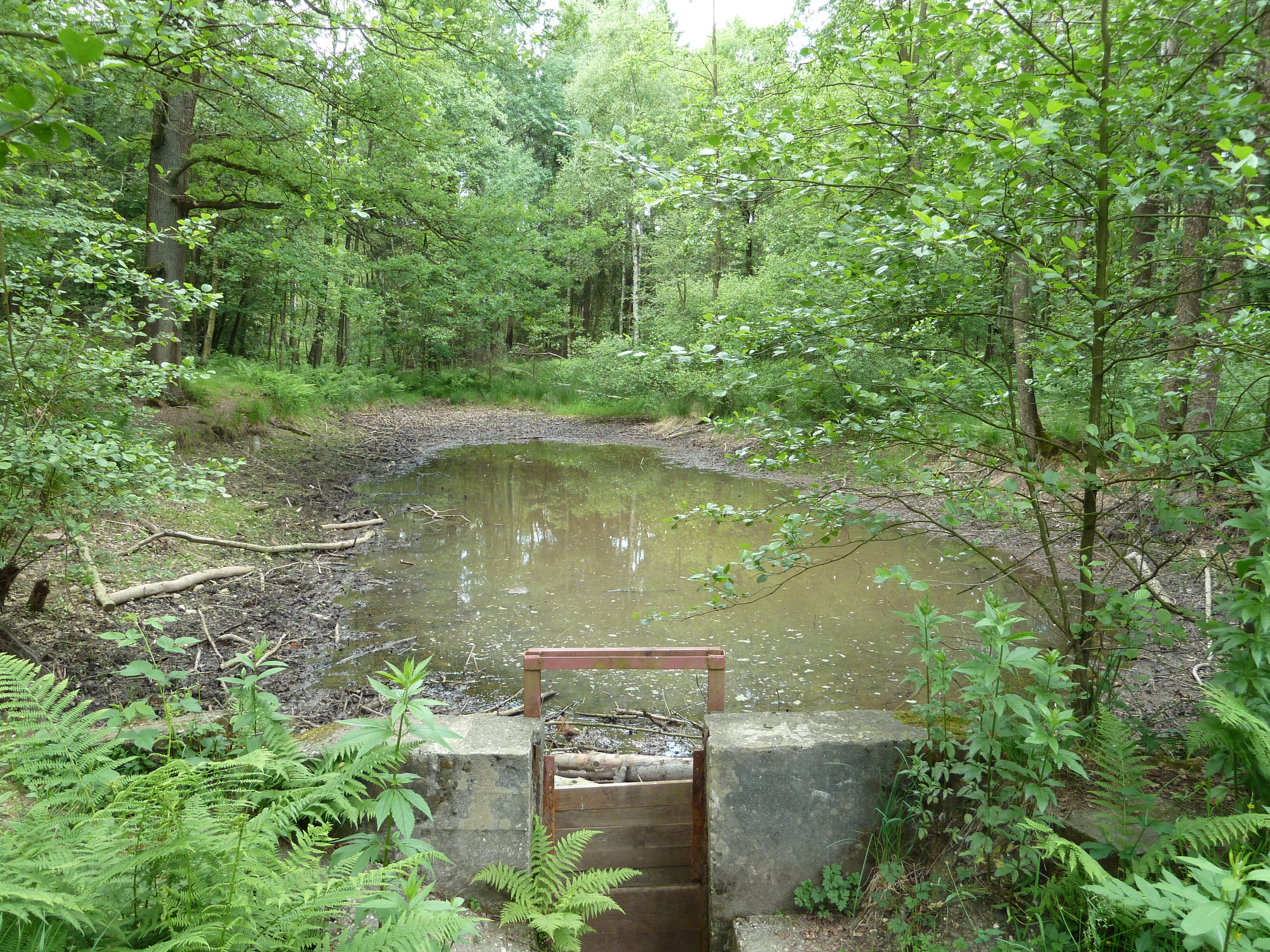 Source of the river Geul, near the Zyklopensteine near Lichtenbusch